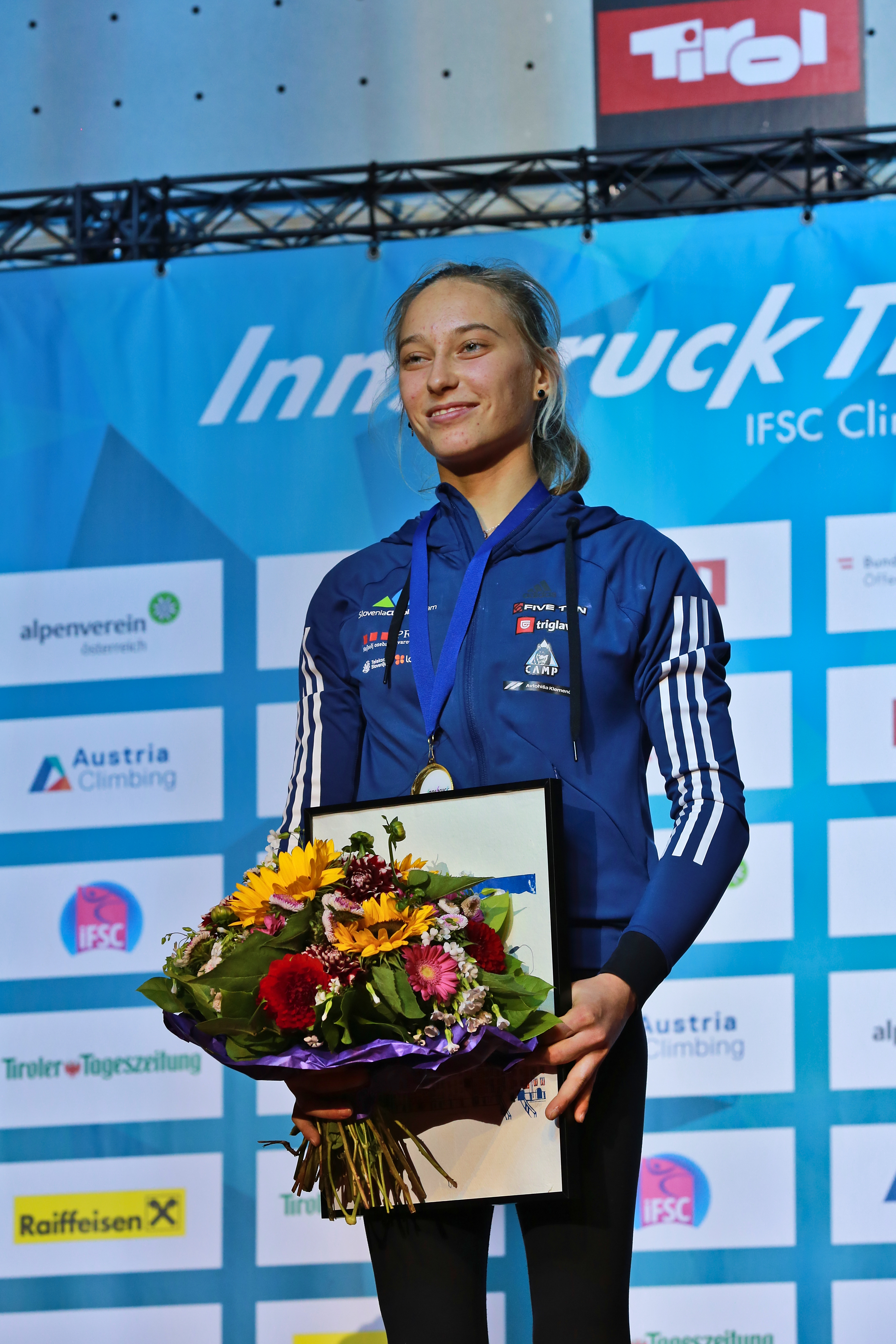 Climbing World Championships 2018 Combined Final Woman winners